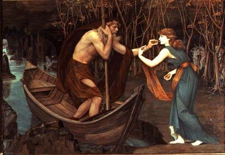 Height: 138.4 cm (54.5 in). Width: 95.2 cm (37.5 in).